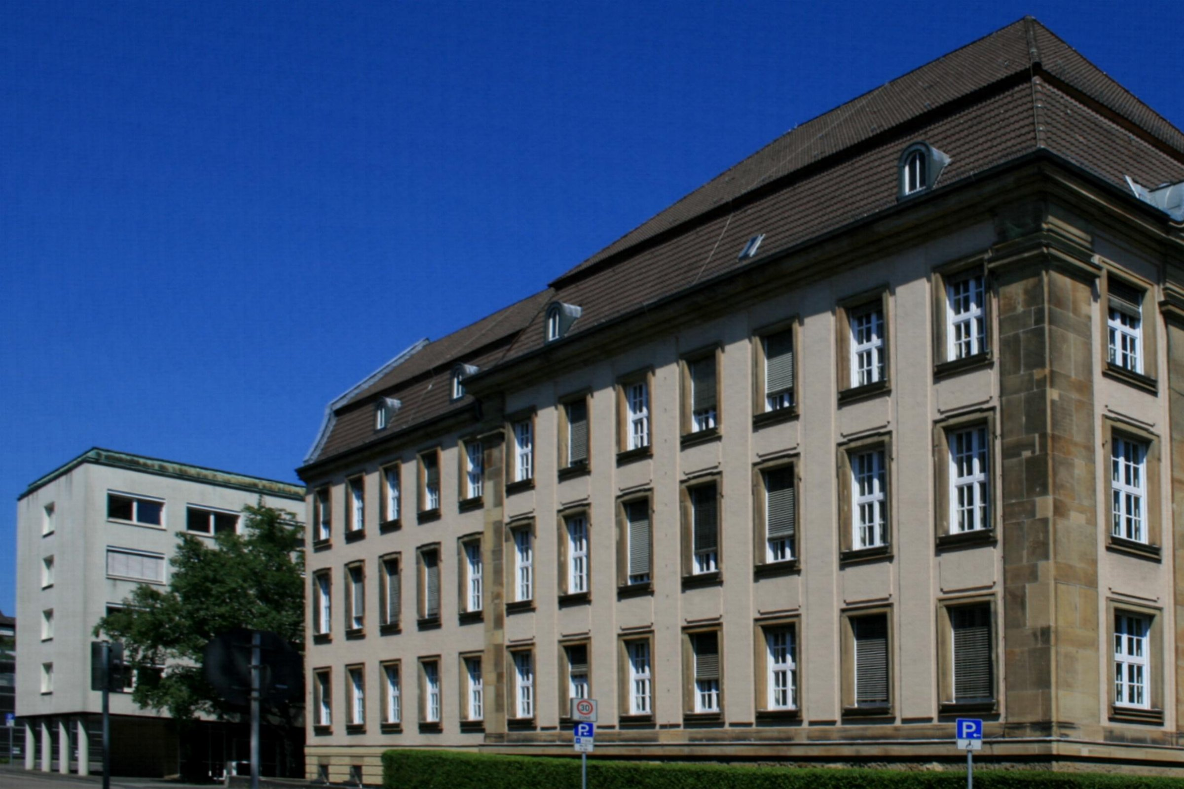 Cultural heritage monument No. H 022 in Mönchengladbach